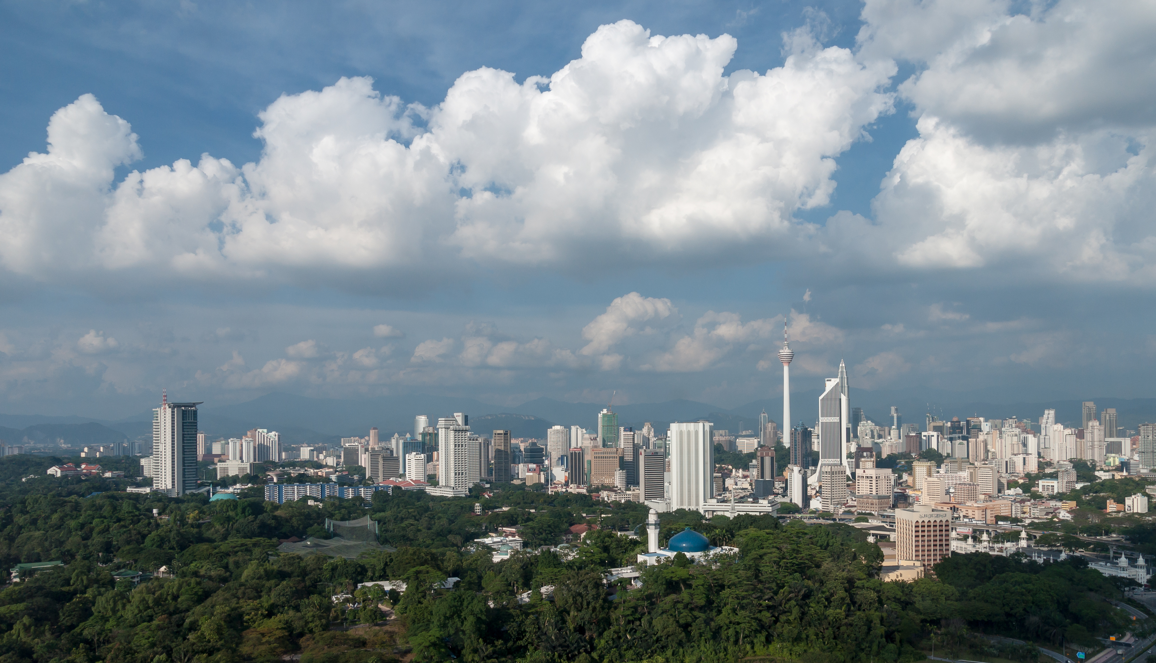 Kuala Lumpur, Malaysia: Skyline, seen from LeMeridien Hotel